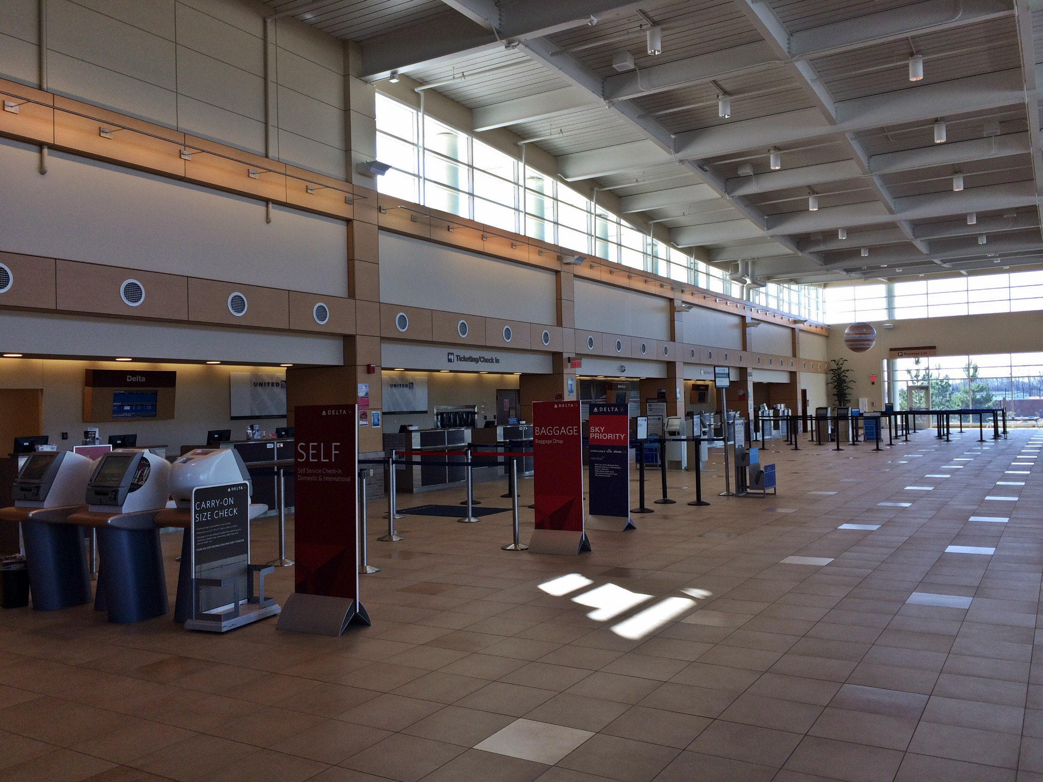 Ticketing/Departure area at PIA